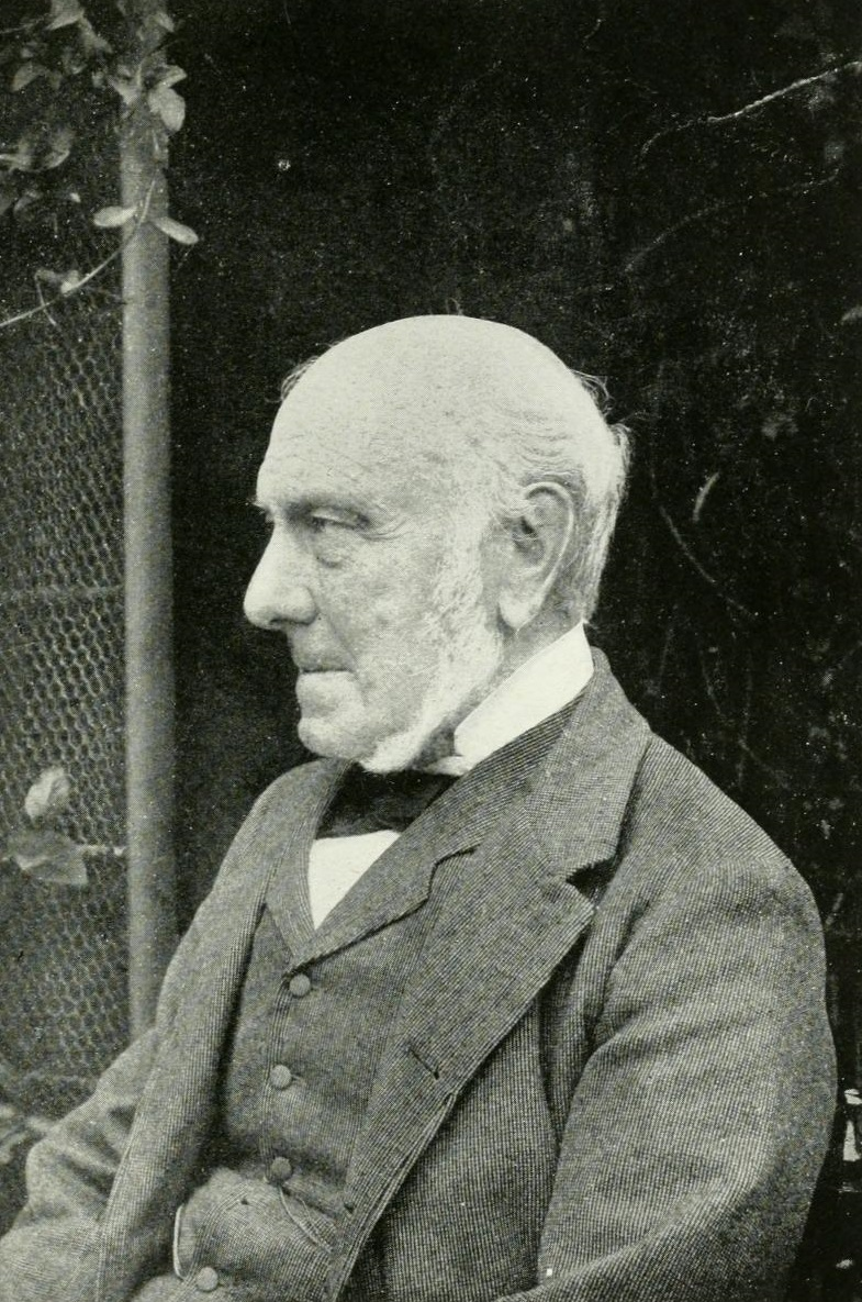 Portrait of Frederic Rogers, 1st Baron Blachford